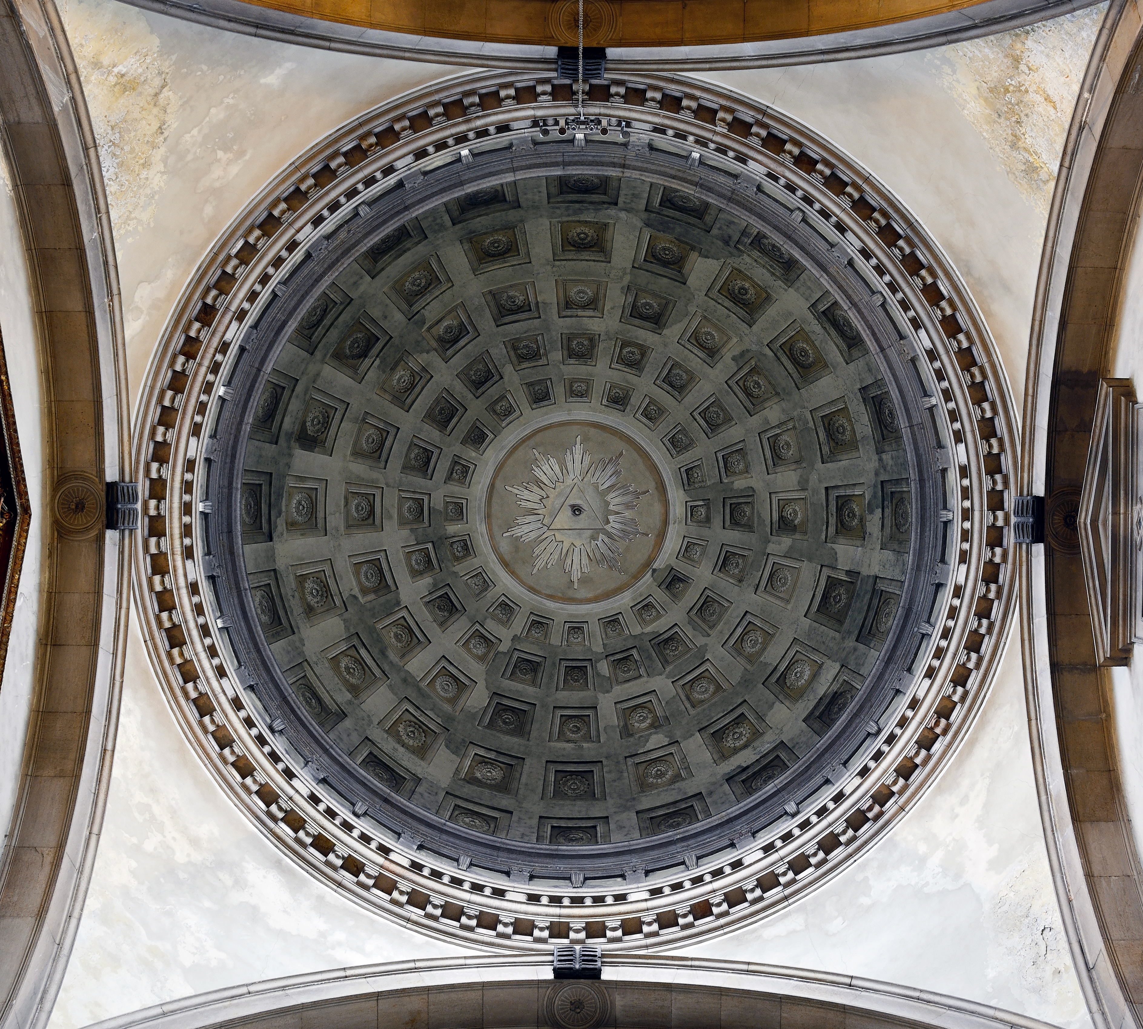 San Giorgio in Braida (Verona) - Dome